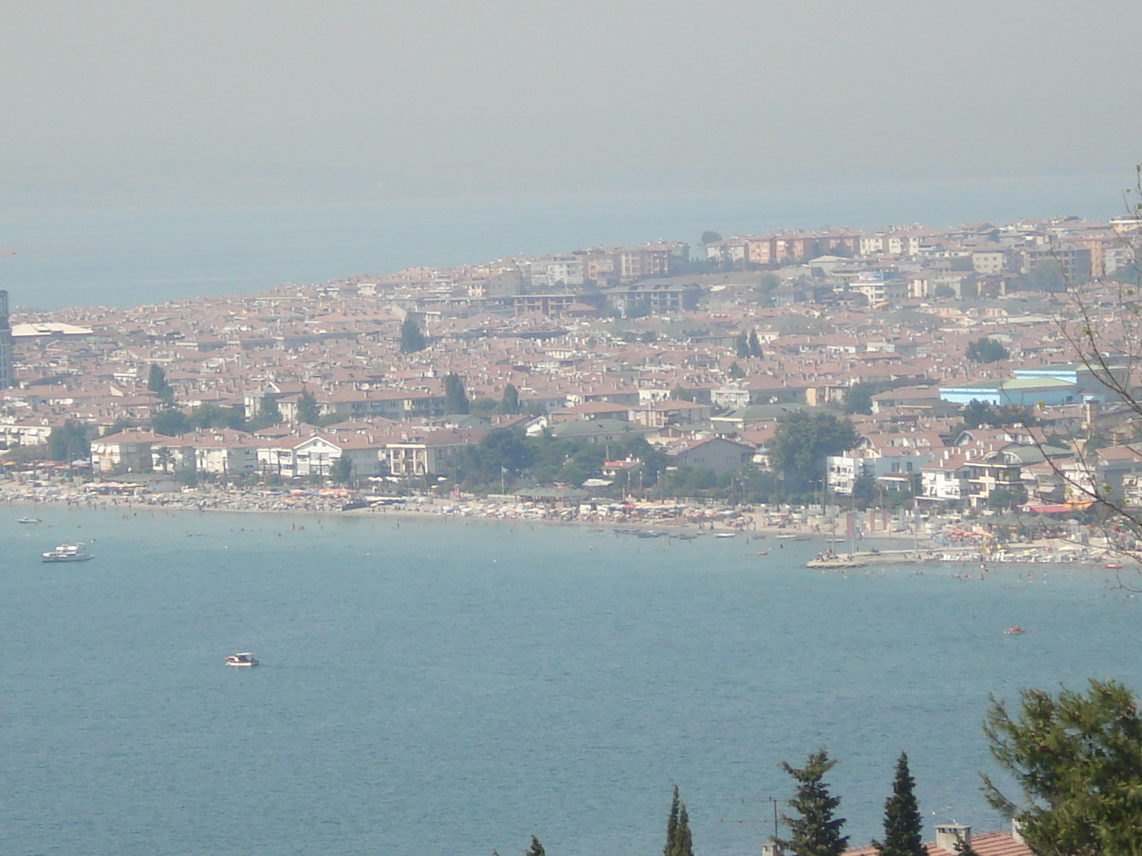 The beach of Büyükçekmece